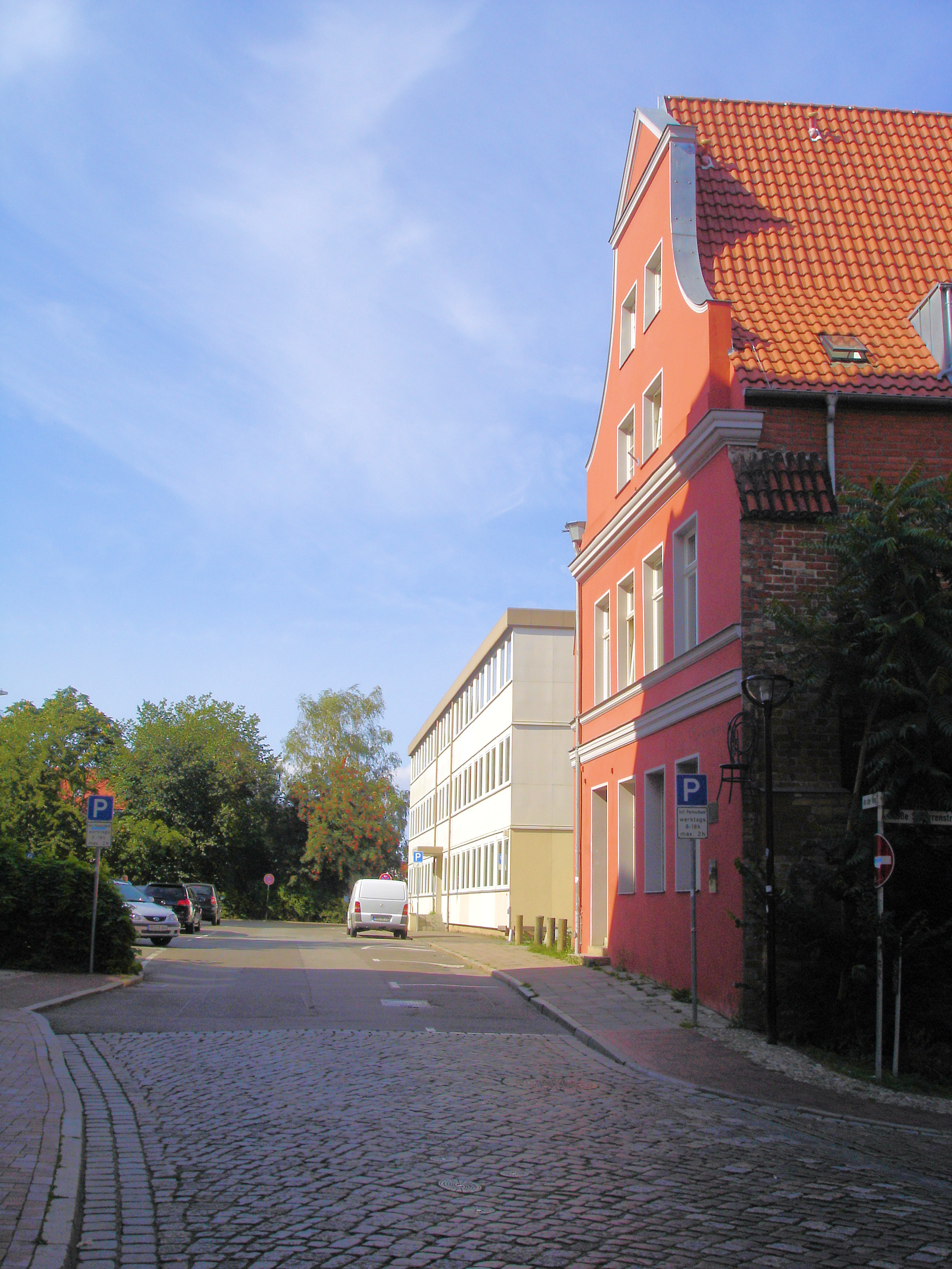 Street in the historic city of Rostock